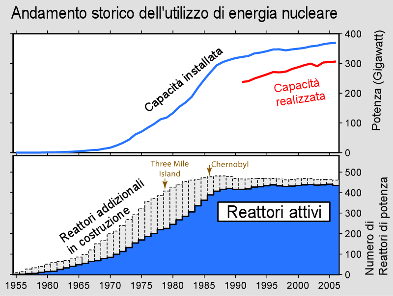 Italian version of File:Nuclear Power History.png